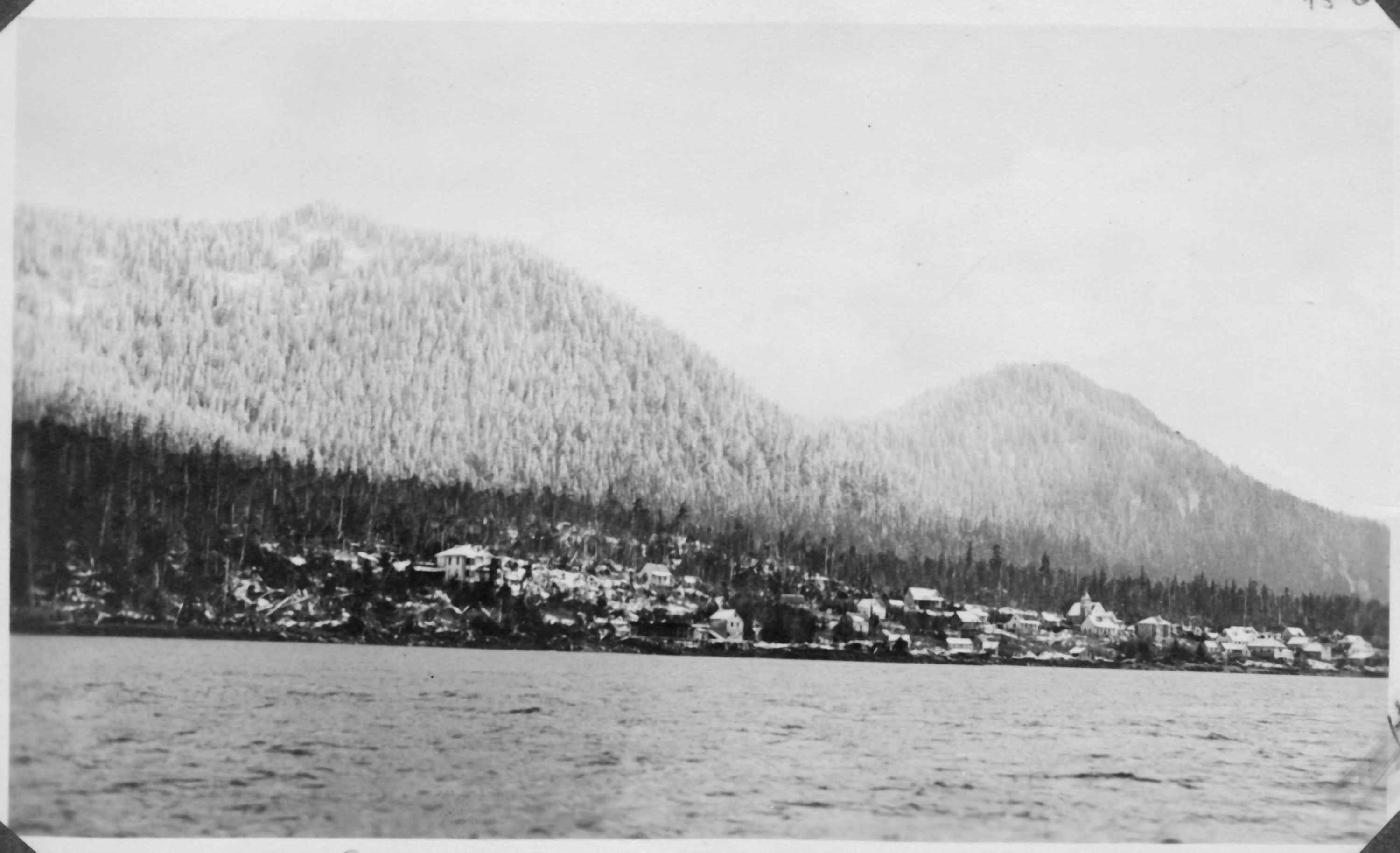 Scope and content: On Backing: "Saxman, March 23, 1917. Showing what is left of the mission established by Sheldon Jackson in 1895. Comment by H.S.W. 2/5/26.